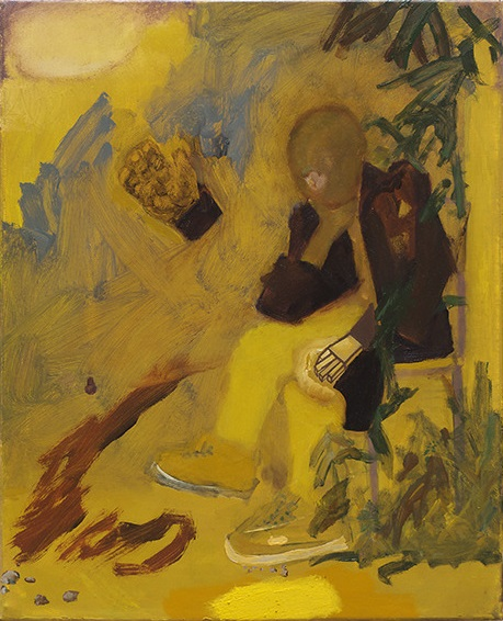 33x41cm, oil on canvas, 2017 Painting by Piotr Kotlicki based on Rodin's The Thinker.